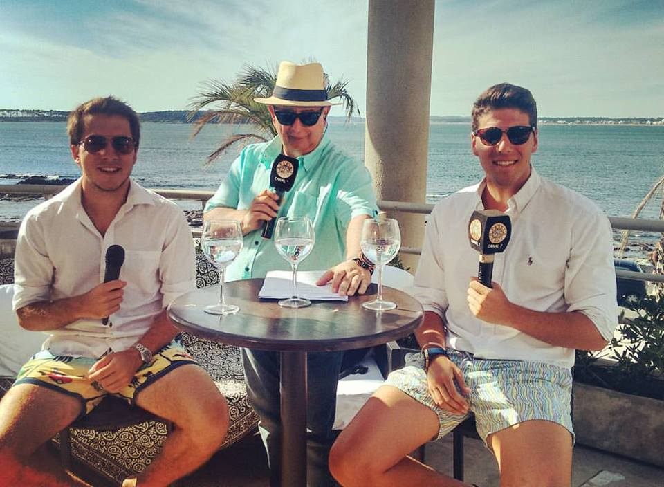 Ring Rajen in Sergio Puglia Show